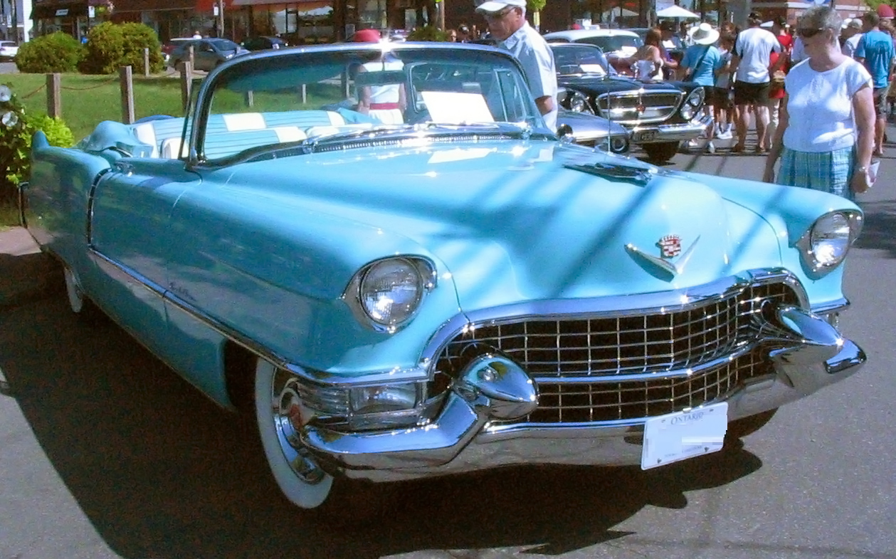 1955 Cadillac Series 62 Convertible photographed in Pointe-Claire, Quebec, Canada at the Auto classique Pointe-Claire 2011.